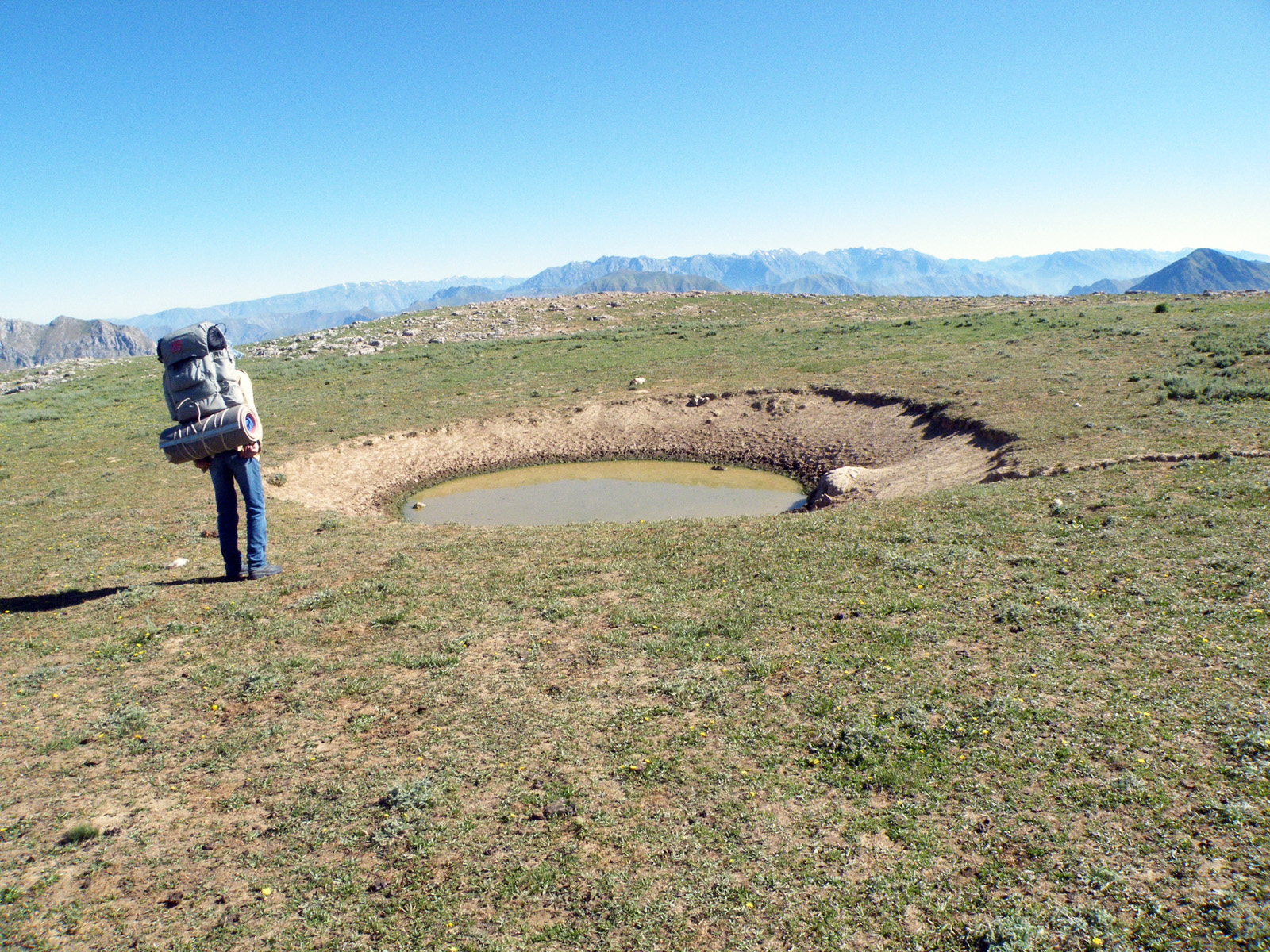 Karst crater on the Pulatkhan plateu. Tashkent area, Uzbekistan.